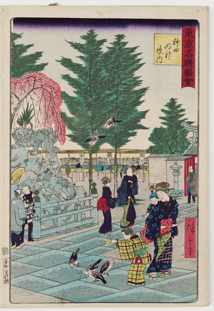 from the series Famous Places in Tokyo 3代広重『東京名所図会』「神田明神境内」